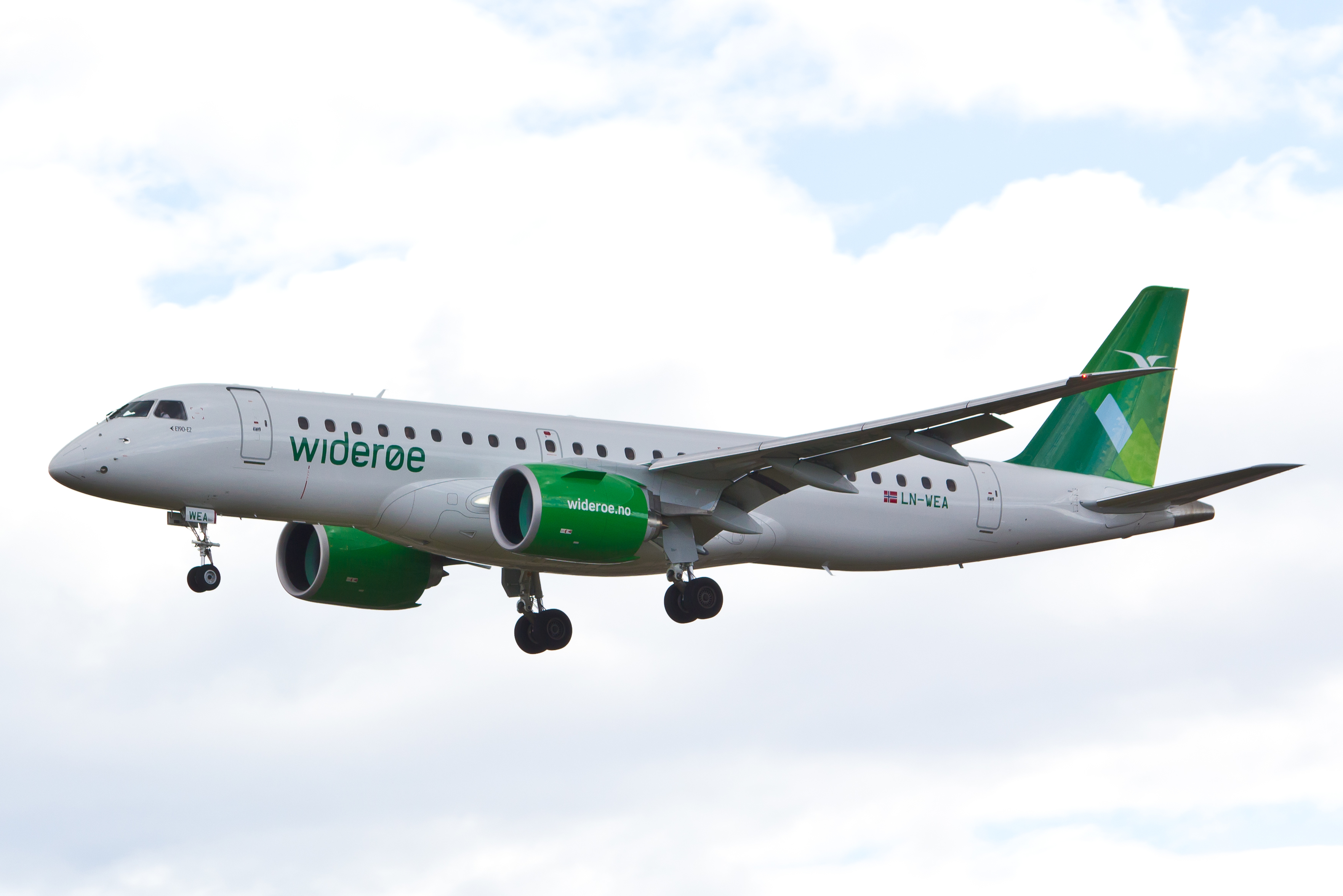 Widerøe Embraer E190-E2 LN-WEA flight AY946 (TOS-HEL) landing Helsinki-Vantaa Airport (EFHK/HEL) rwy 04L June 30th 2018